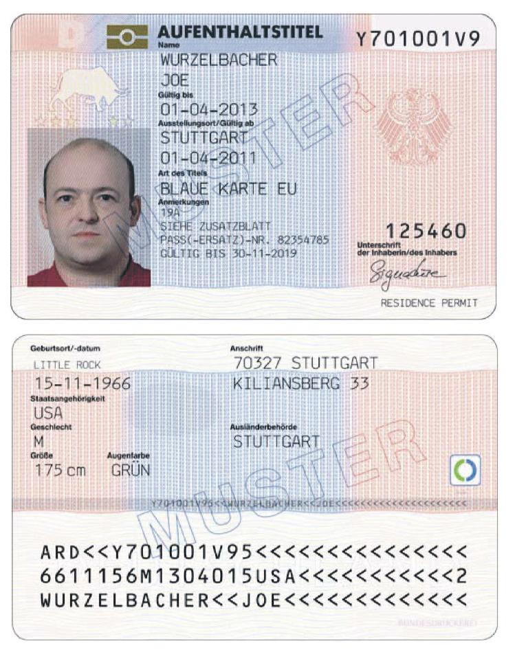 Blue Card EU (electronic version) in Germany